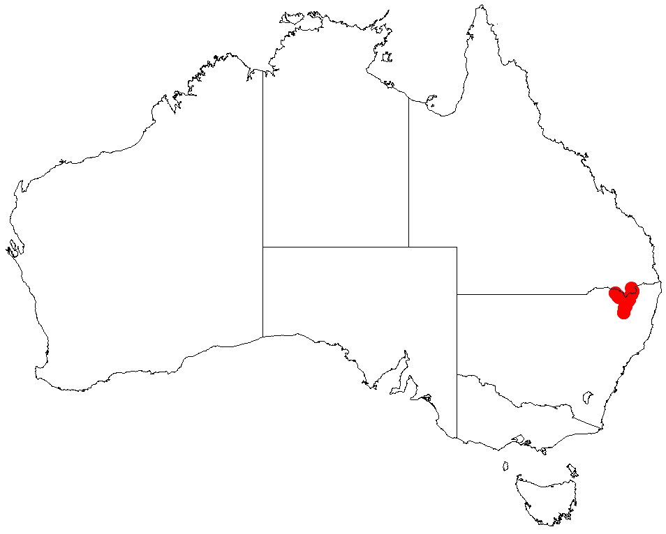 Acacia williamsiana occurrence data from Australasia Virtual Herbarium downloaded from on 8 December 2018